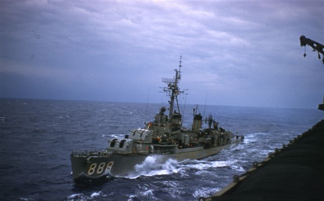 The U.S. Navy radar picket destroyer USS Stickell (DDR-888) underway alonside the aircraft carrier USS Franklin D. Roosevelt (CVA-42).